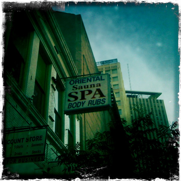 Oriental Sauna Spa Body Rubs. A massage parlor in New Orleans, USA.